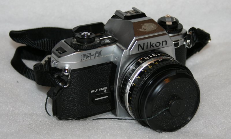 A Nikon FG-20 with 50mm lens